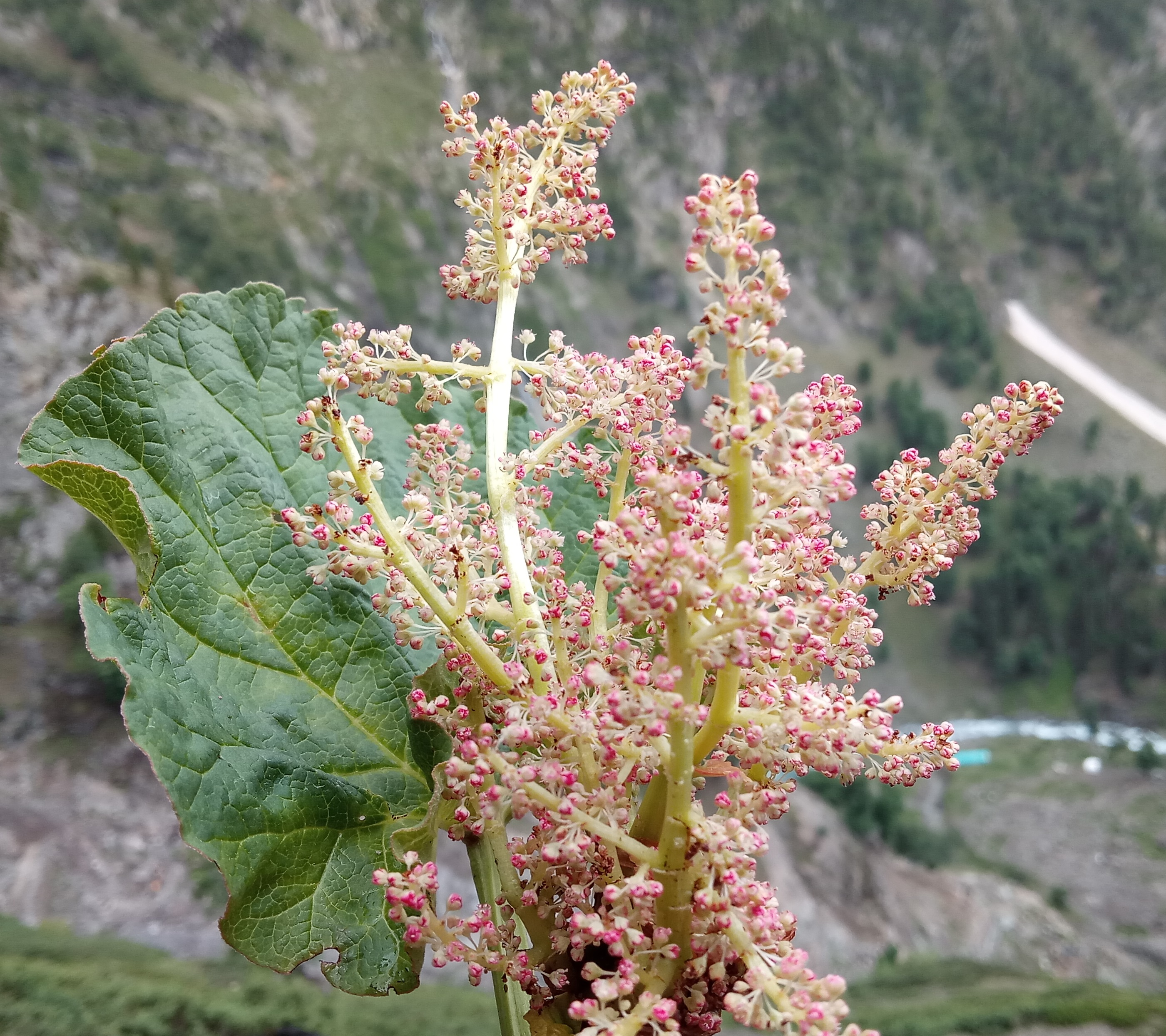 Inflorescence of Rheum australe. Pissu Top, Anantnag, Kashmir.